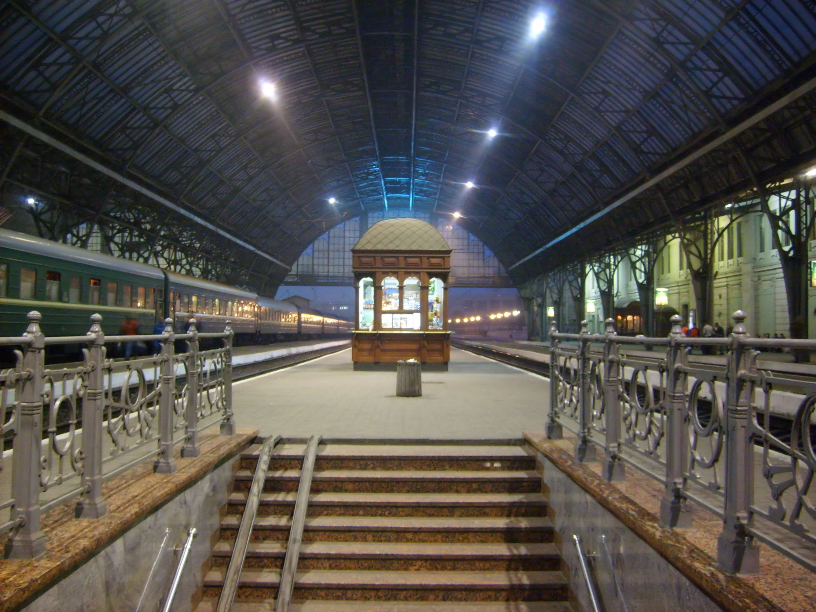 A design for the registers was constructed in Zieleniewski Maschinen und Wagonbau-Gesellschaft Werk Sanok, Autosan)